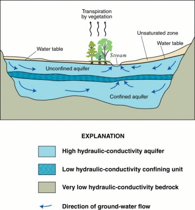 A diagram showing the relation between confined and unconfined aquifers; figure 5 from USGS circular 1186; The regions in the figure correspond to: light blue zones are aquifers, darker blue hatched zone is an aquitard, light brown (tan) section is the vadose zone (unsaturated zone), and dark brown area is "impermeable" bedrock (an aquiclude).